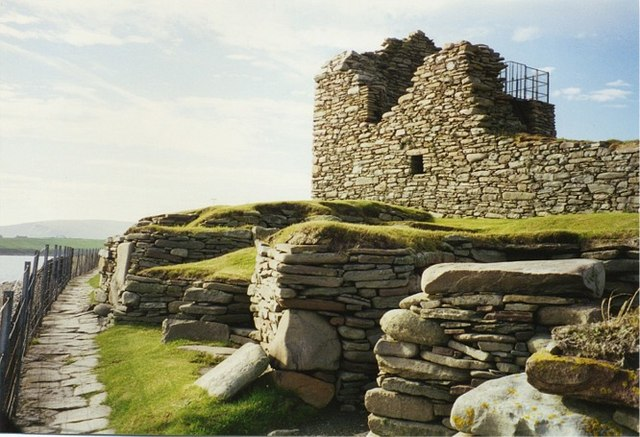 Jarlshof settlement, Sumburgh, South Mainland, Shetland.